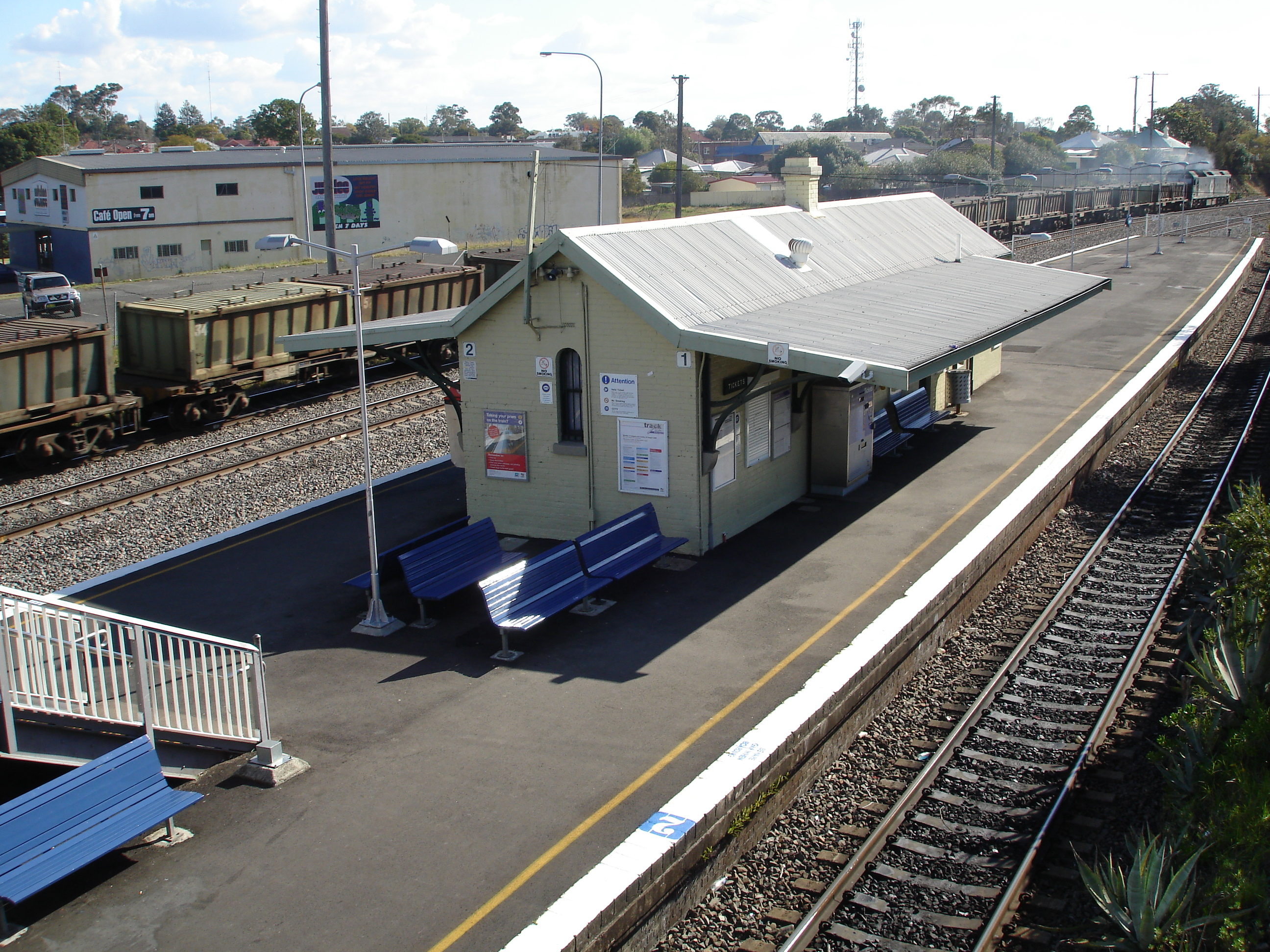 Victoria St station taken by MrTwig